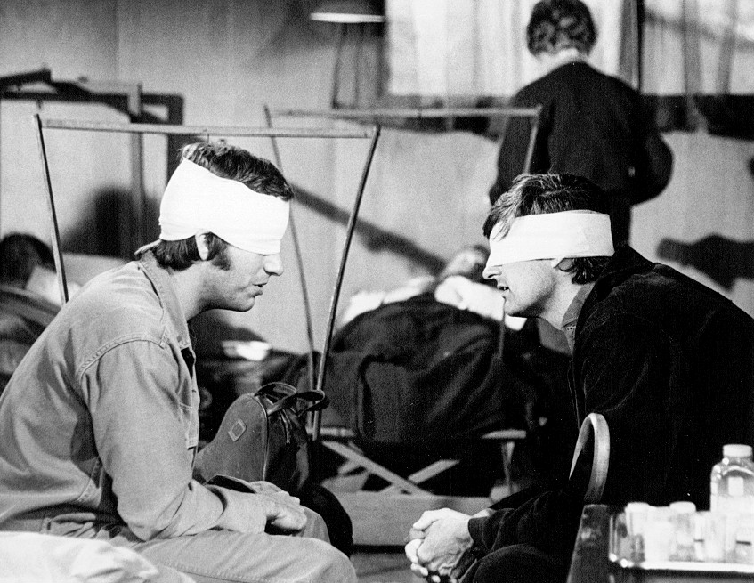 Photo of Tom Sullivan and Alan Alda from the MASH episode "Out of Sight, Out of Mind". Hawkeye is temporarily blinded in an accident at the 4077th and must find a way to adjust. The item has no copyright markings on it as can be seen in the links above.